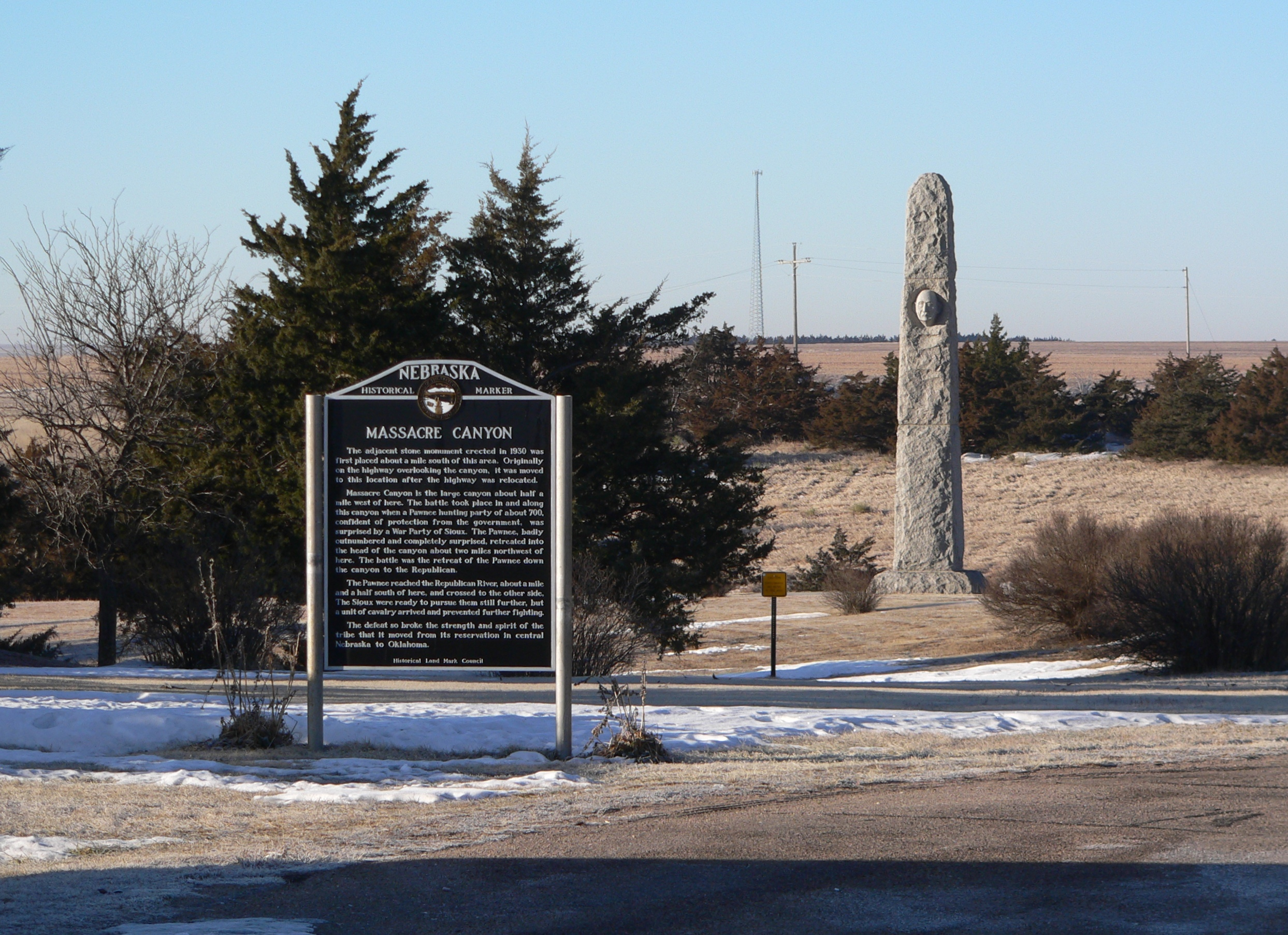 Massacre Canyon monument and historical marker on south side of U.S. Highway 34 northeast of Trenton, Nebraska; seen from the east. According to the historical marker, the monument was built in 1930.